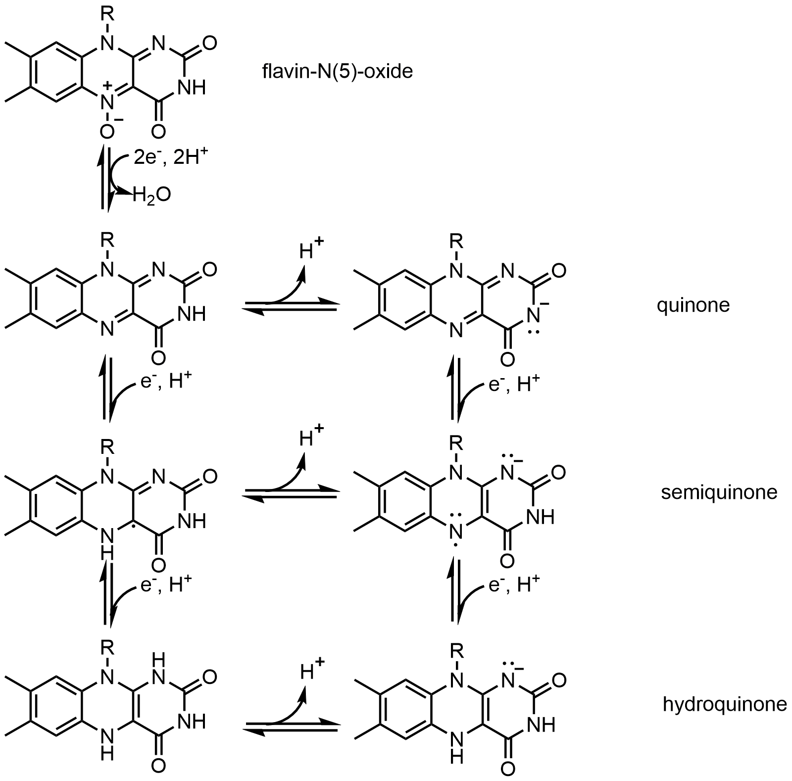 DIfferent redox states of FAD